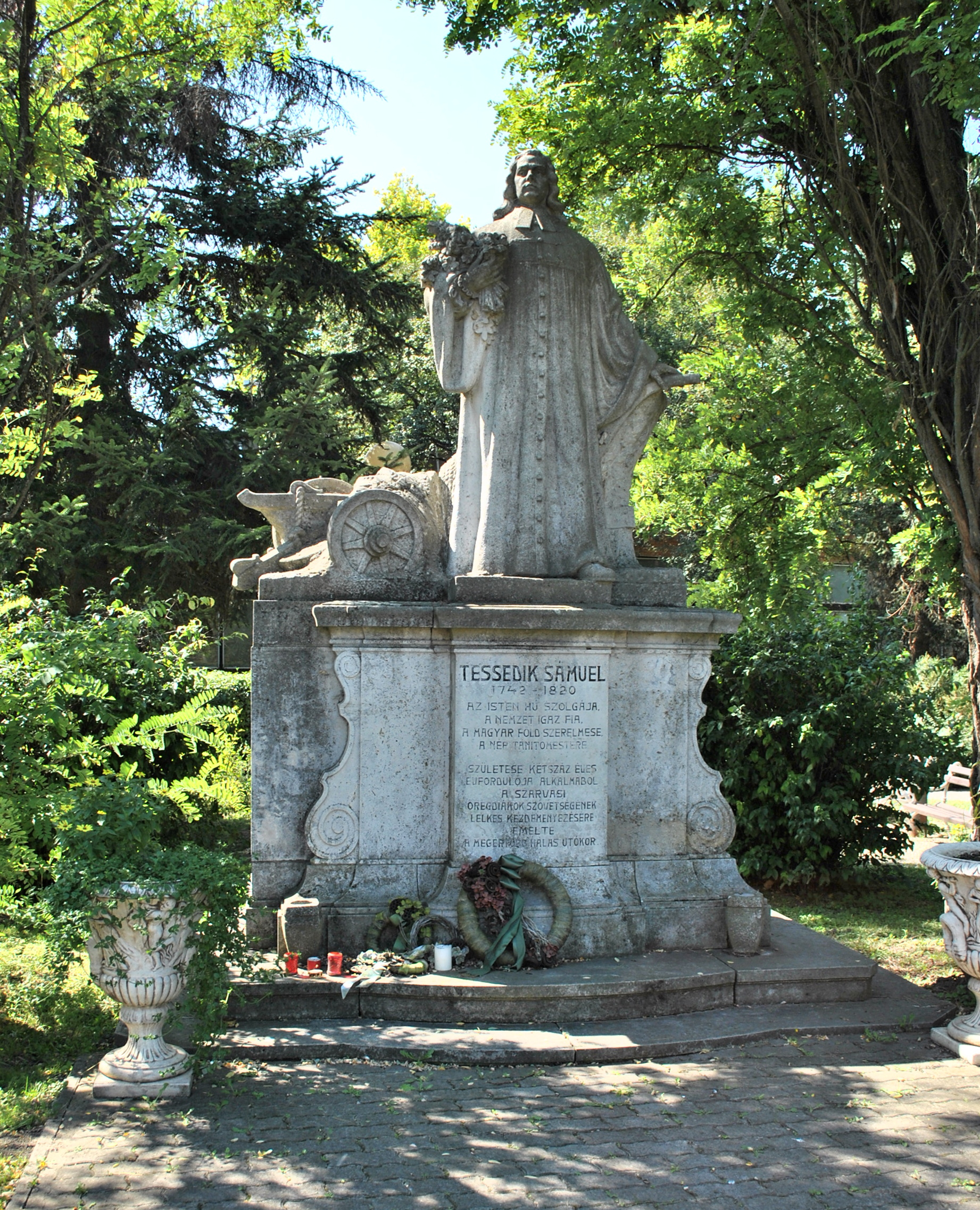 Statue of Samuel Tessedik (1742 - 1820) in the town of Szarvas, Hungary; built in 1942